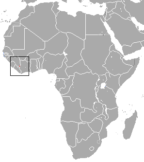 Lamotte's Roundleaf Bat (Hipposideros lamottei) range